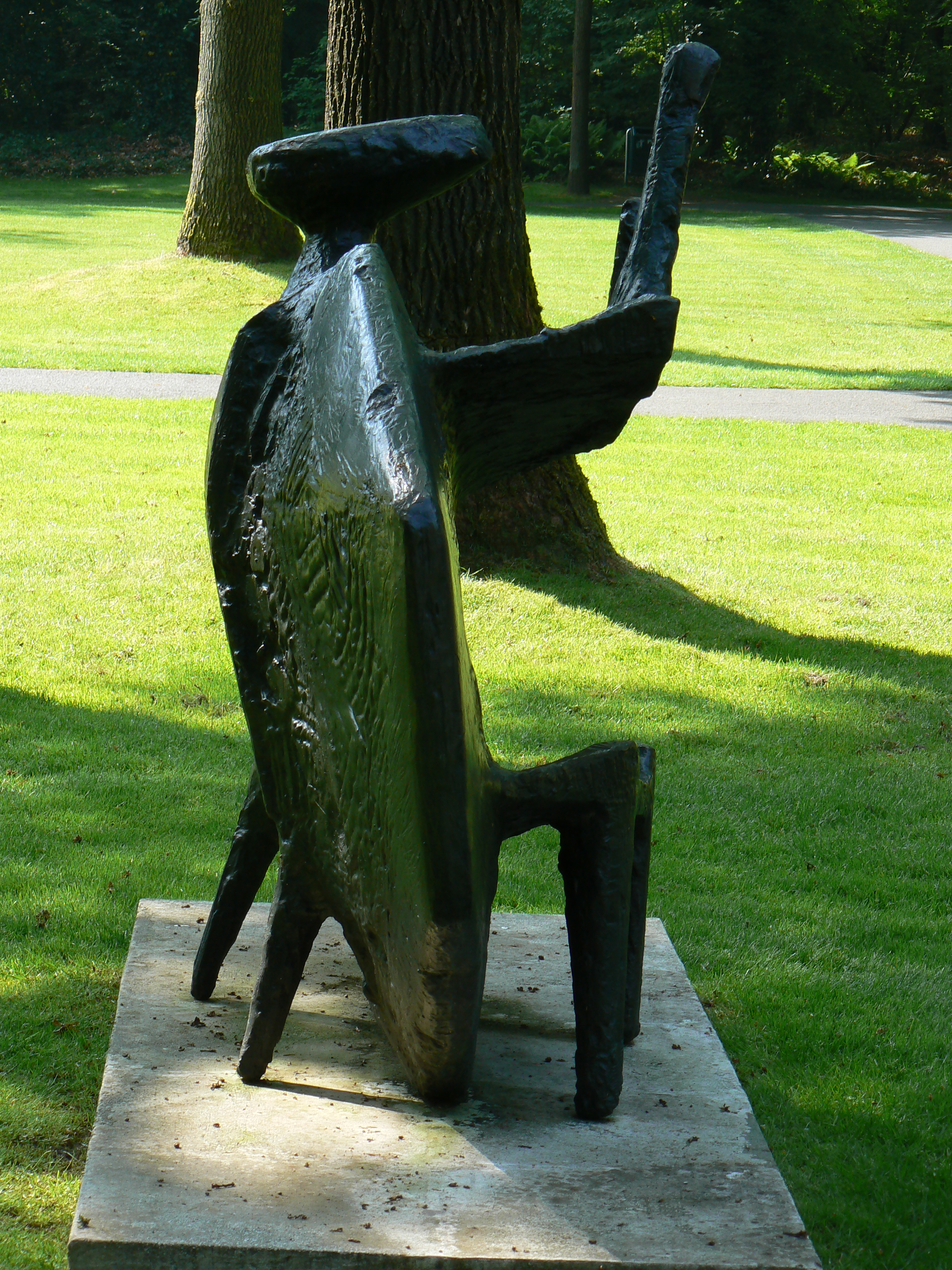 sculpture Monitor (1961) by Kenneth Armitage at KMM in Otterlo/The Netherlands